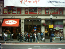 A photograph of Hamleys toy shop in Regent Street, London.